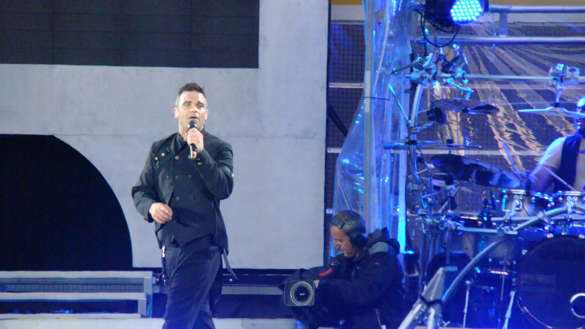 Robbie Williams performing as part of the Take That Progress Live 2011 Tour, Sunderland Stadium of Light